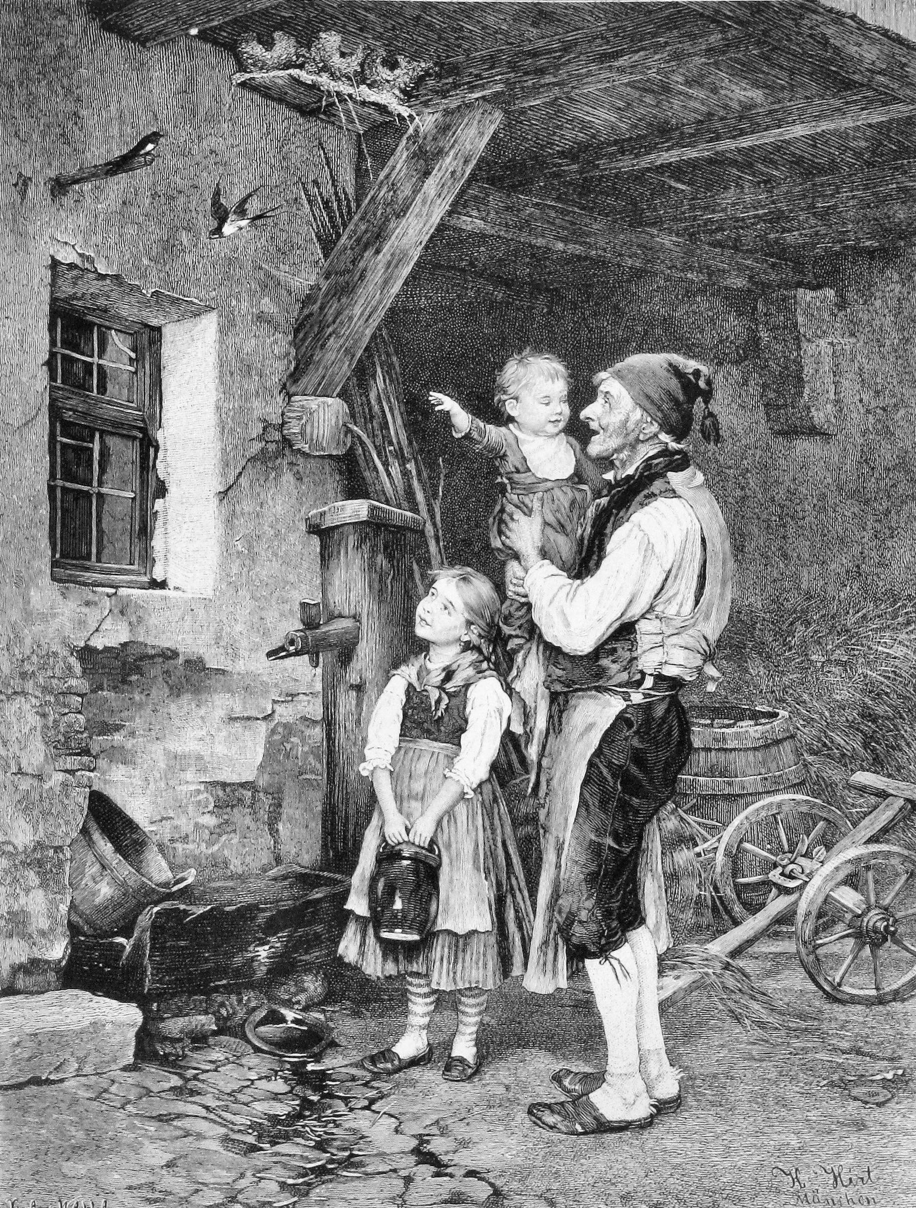 Swallows' nests.